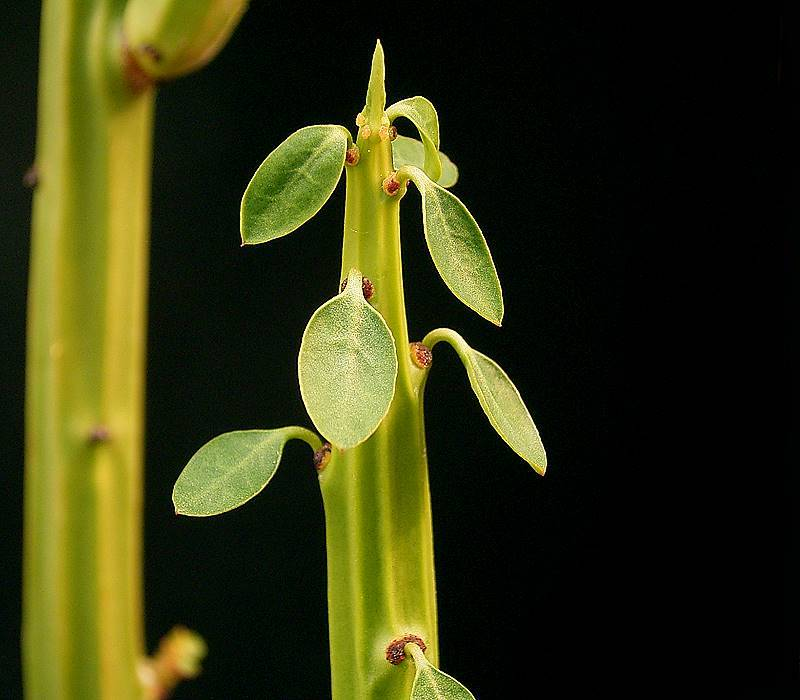 Euphorbia weberbaueri Other versions of this file: available on request